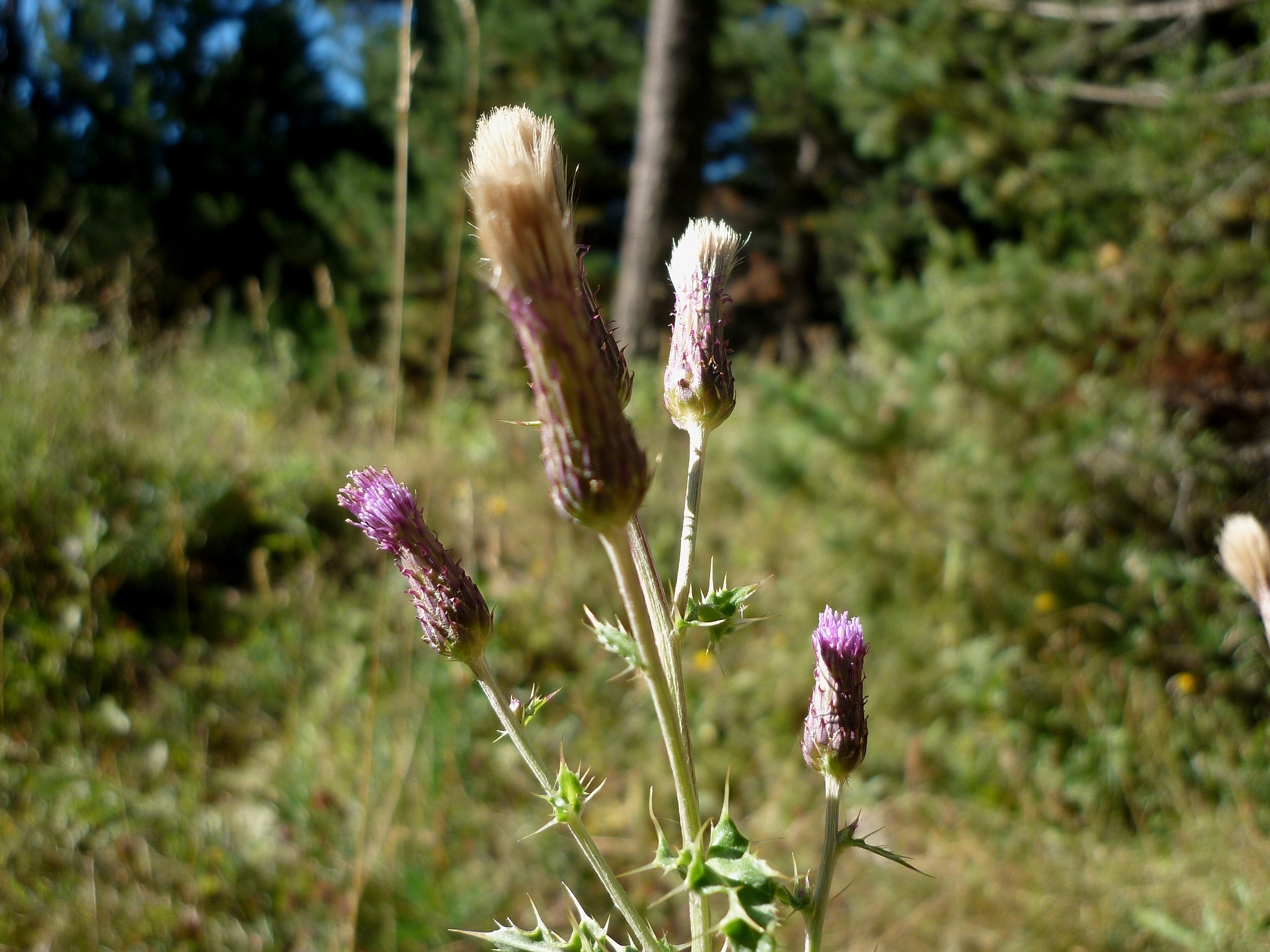 Cirsium arvense. In the Cadinell (Josa i Tuixèn-Alt Urgell-Catalunya). To 1.705 m. altitude